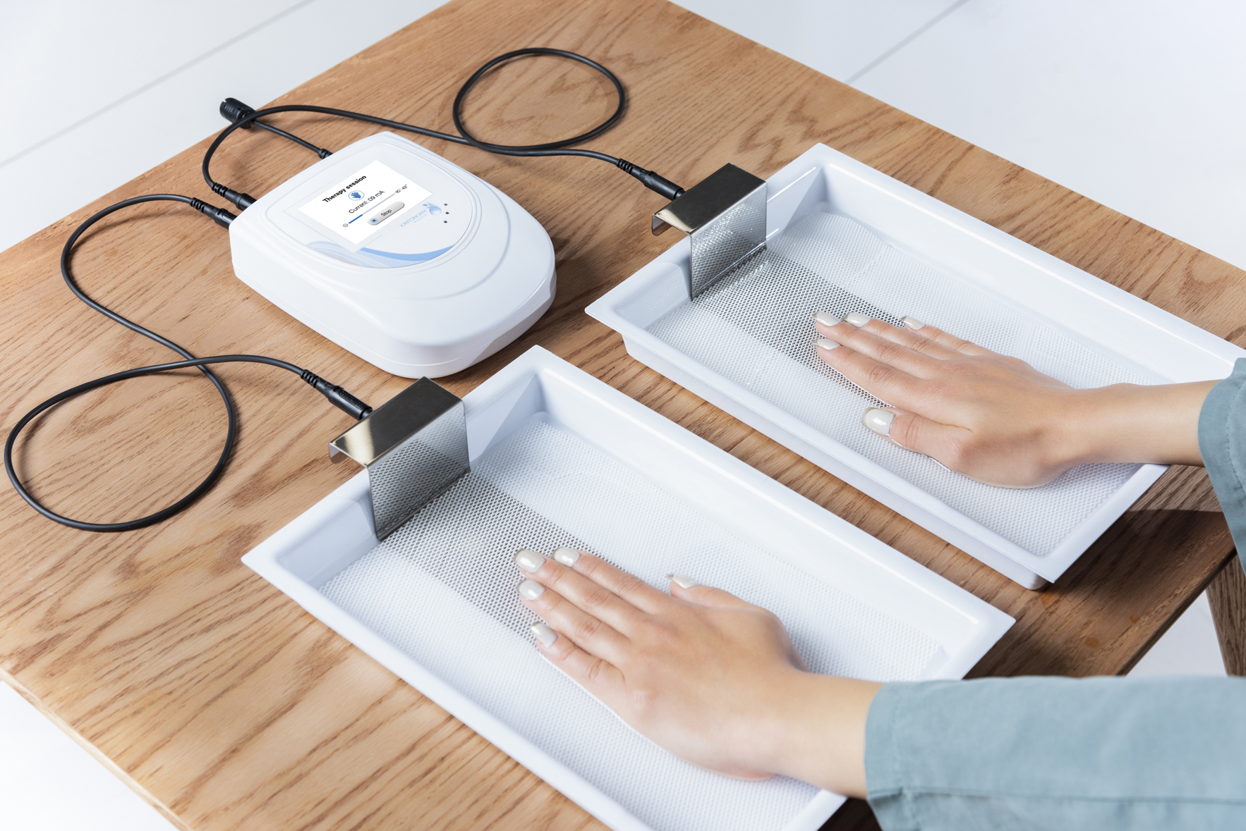 Applying iontophoresis technique for treatment of hyperhidrosis. usually, tap water is used to conduct a mild current through the affected areas.